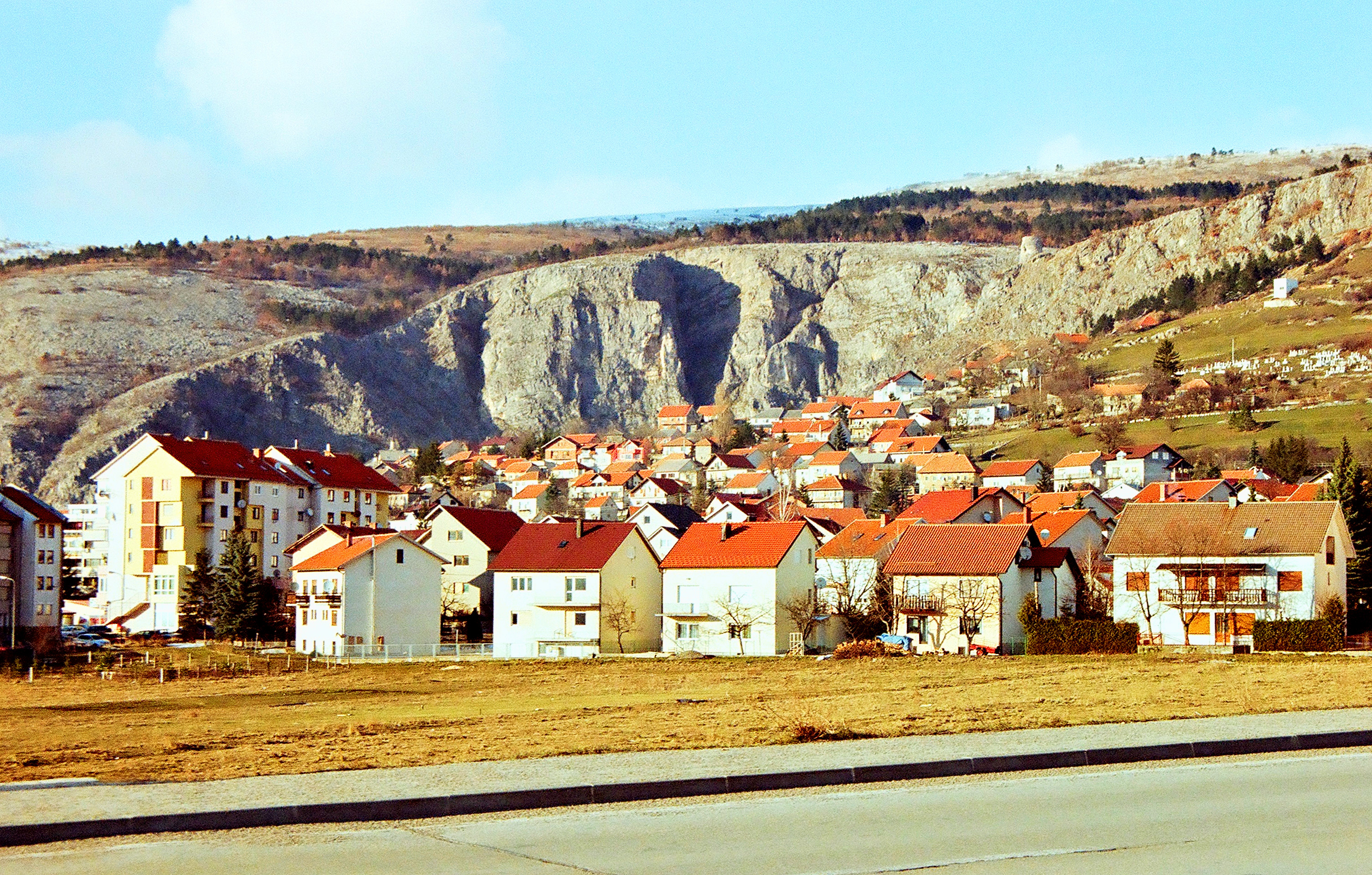 View of Basajkovac Hill from the new ring road my back is to Gorica Monastry.